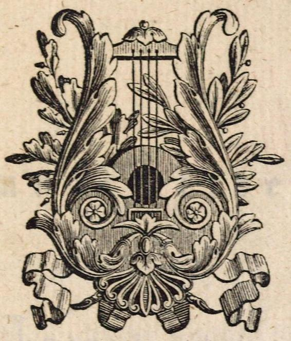 This is a scan of the historical document